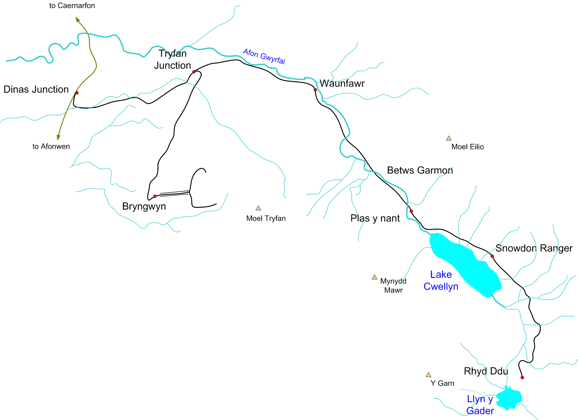 Map of the North Wales Narrow Gauge Railways Author: Dan Crow Date: October 27, 2006